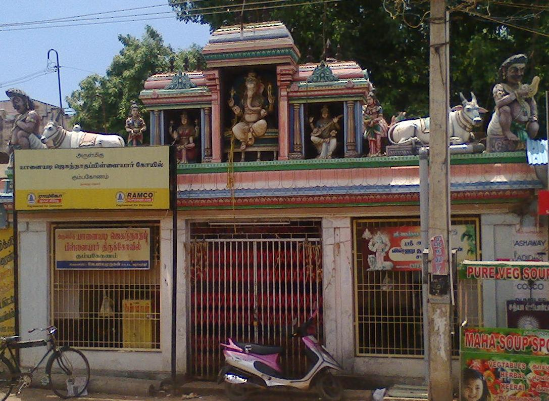 கும்பகோணம் ஜெகந்நாதப்பிள்ளையார் கோயில்